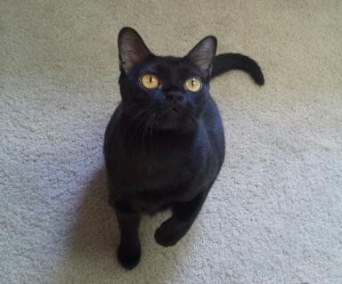 Photo of a Bombay cat Other information NA